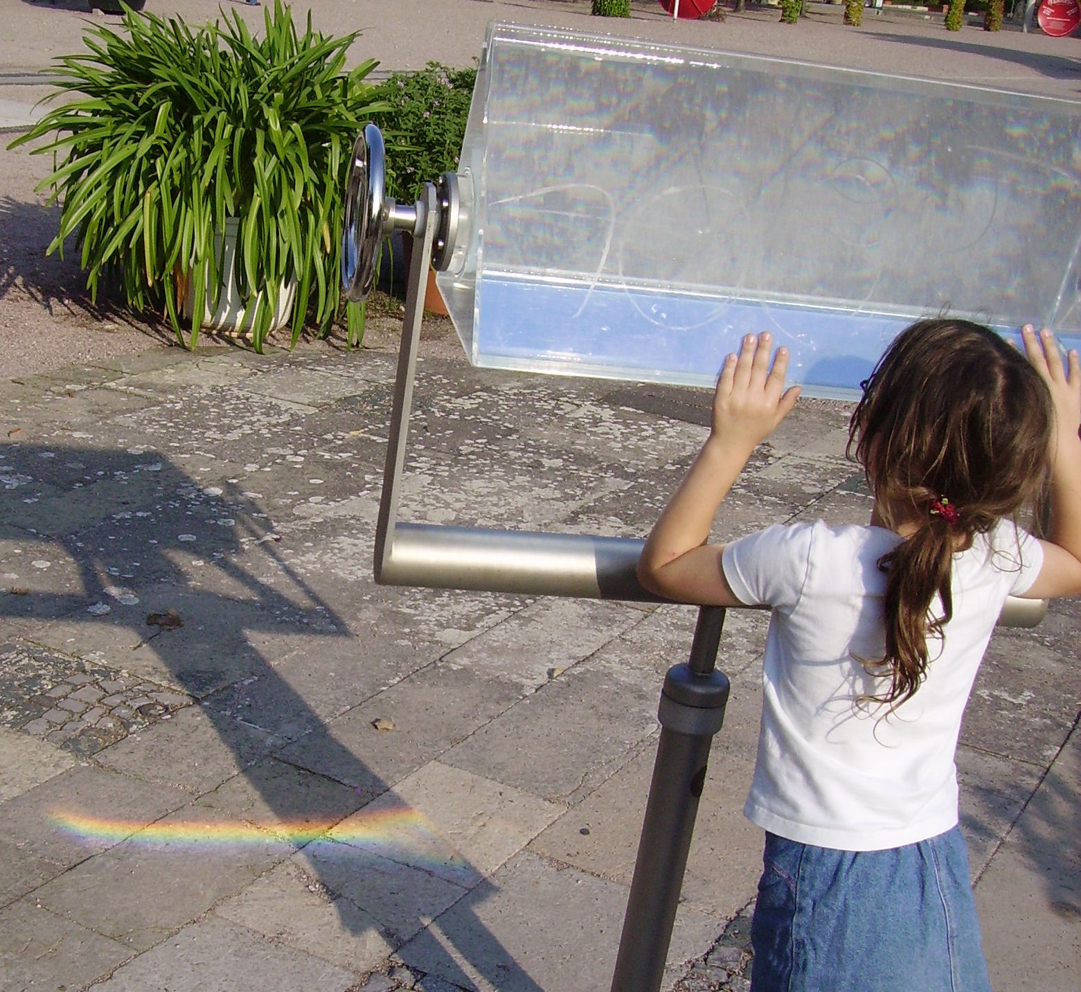 prisma at the EGA in Erfurt (Thüringen, Germany)